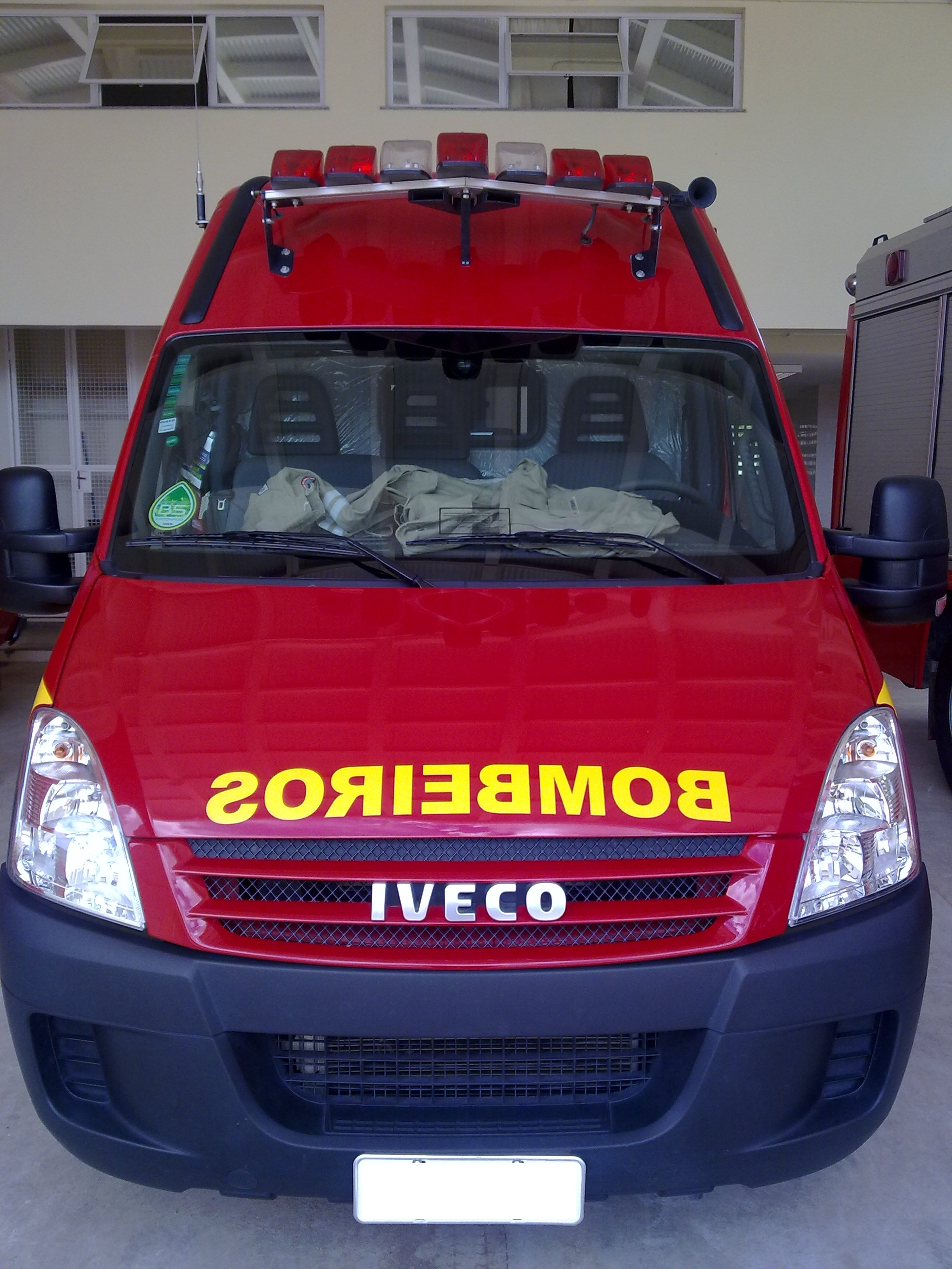 Iveco Daily Mk4 ambulance in Brazil.